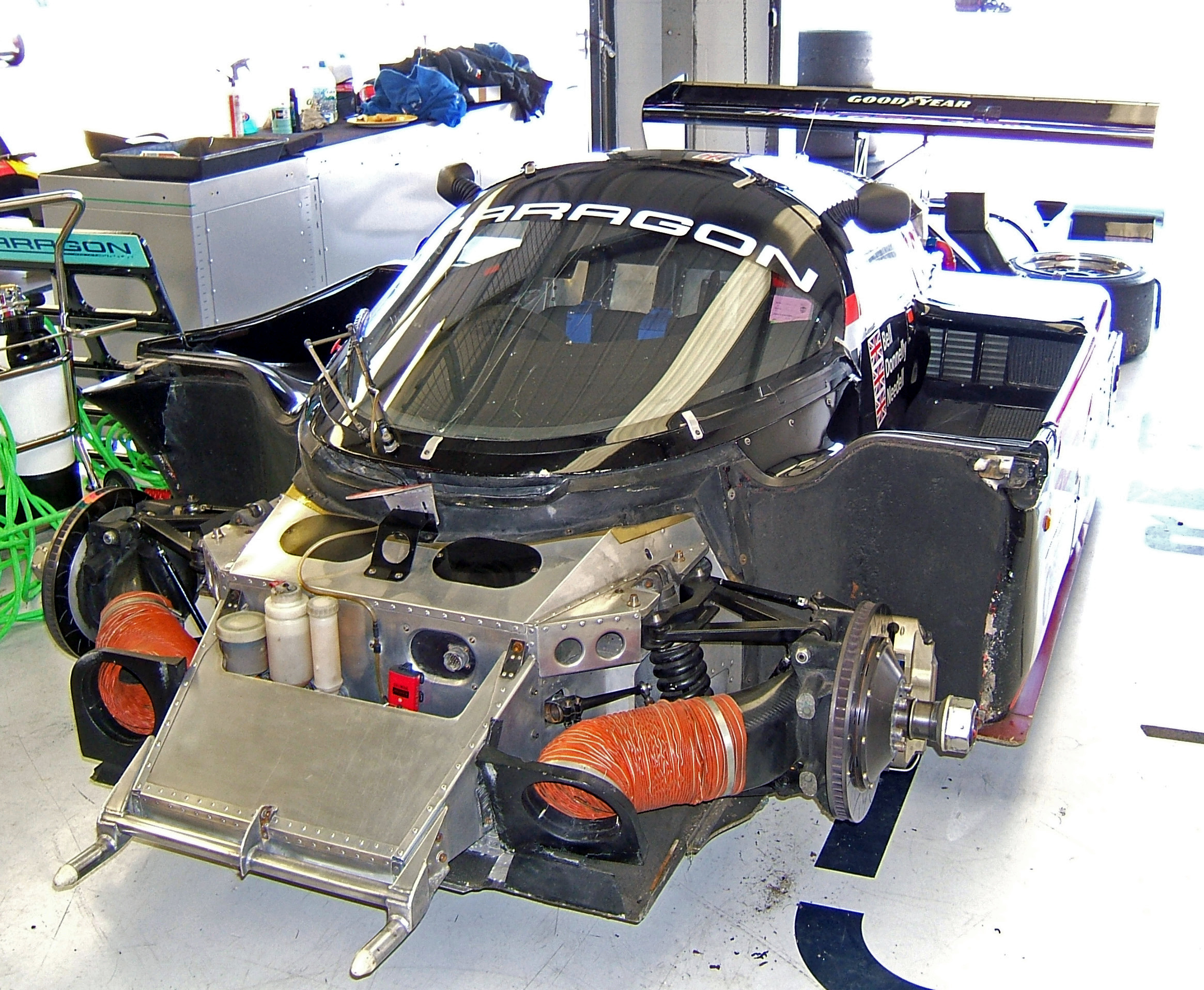 The Silverstone Classic Trophy race-winning RLR-Porsche 962C (#14, UK Porsche livery) receiving attention in the pits at Silverstone, July 2007. Photograph shows well the design of the front end of the monocoque, front suspension and brake cooling ducting.